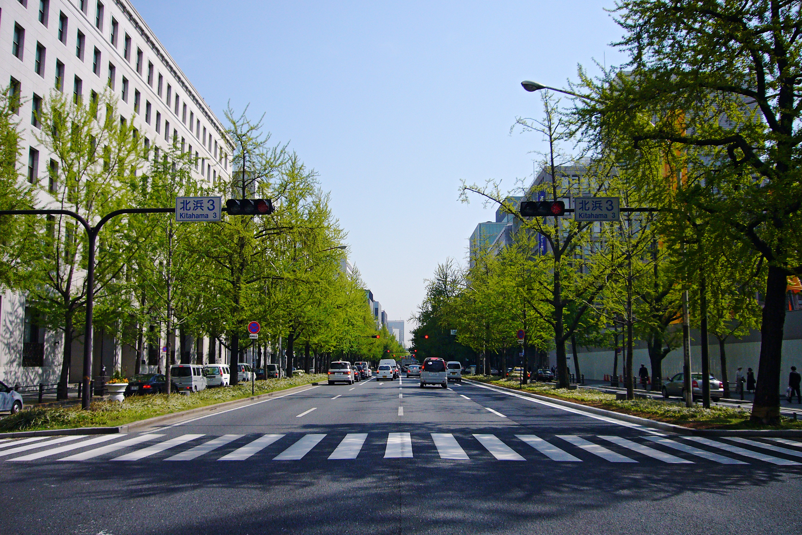 Midōsuji street in Osaka, Osaka prefecture, Japan